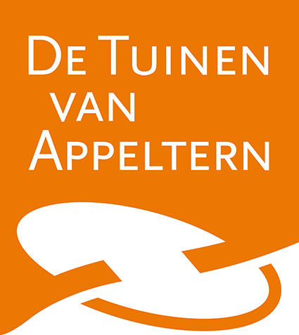 garden, Tuinen van Appeltern, Appeltern